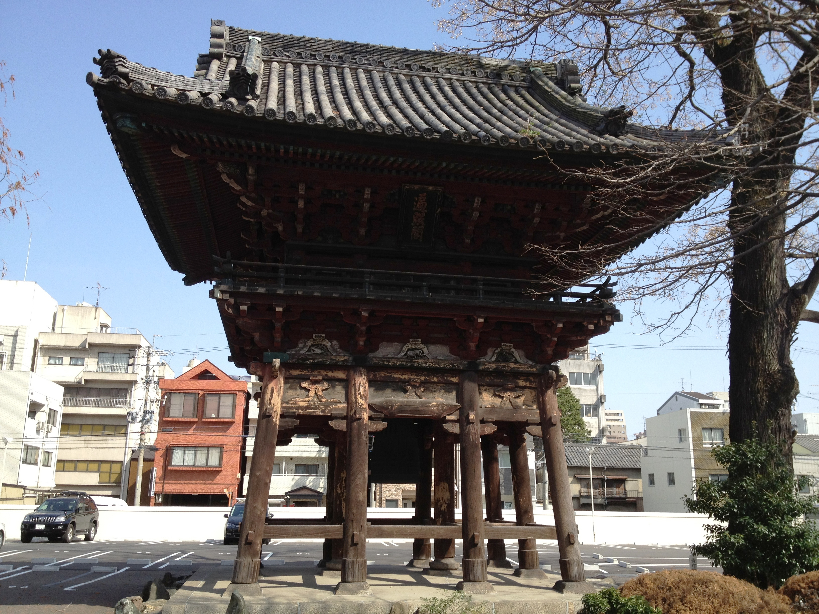 Wooden belfry (shōrō) of the Hongan-ji Nagoya Betsuin.